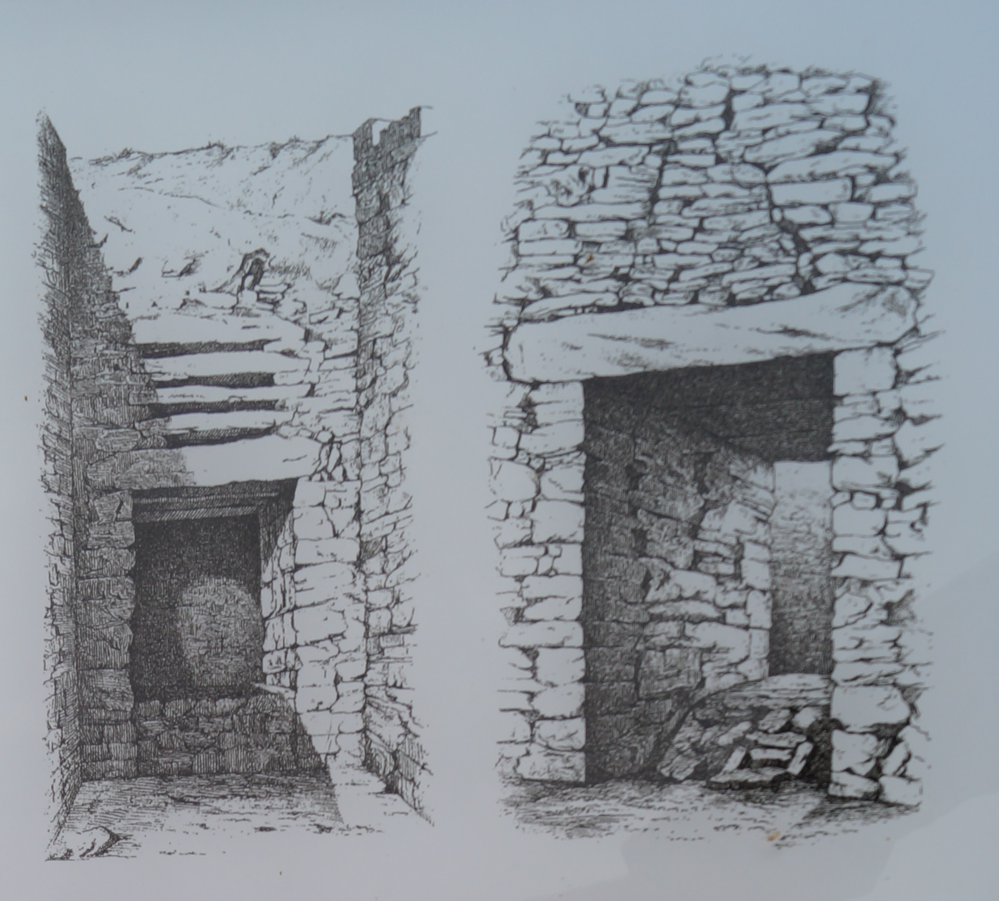 Acharnes, Lycotrypa, Tholos tomb of Menidi: The entrance of the tholos tomb, external and internal view.